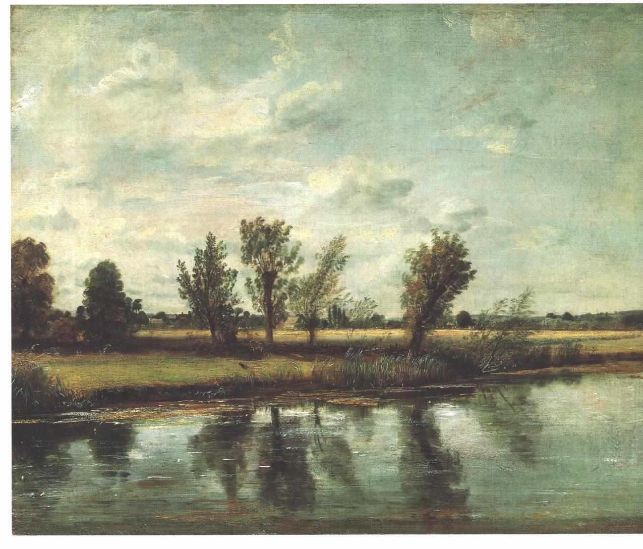 Peat grasslandsat Salisbury